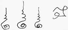 Diagram seen in a taxi in Thailand. Made by a priest to protect the driver from evil. (Three eyes yantra?)